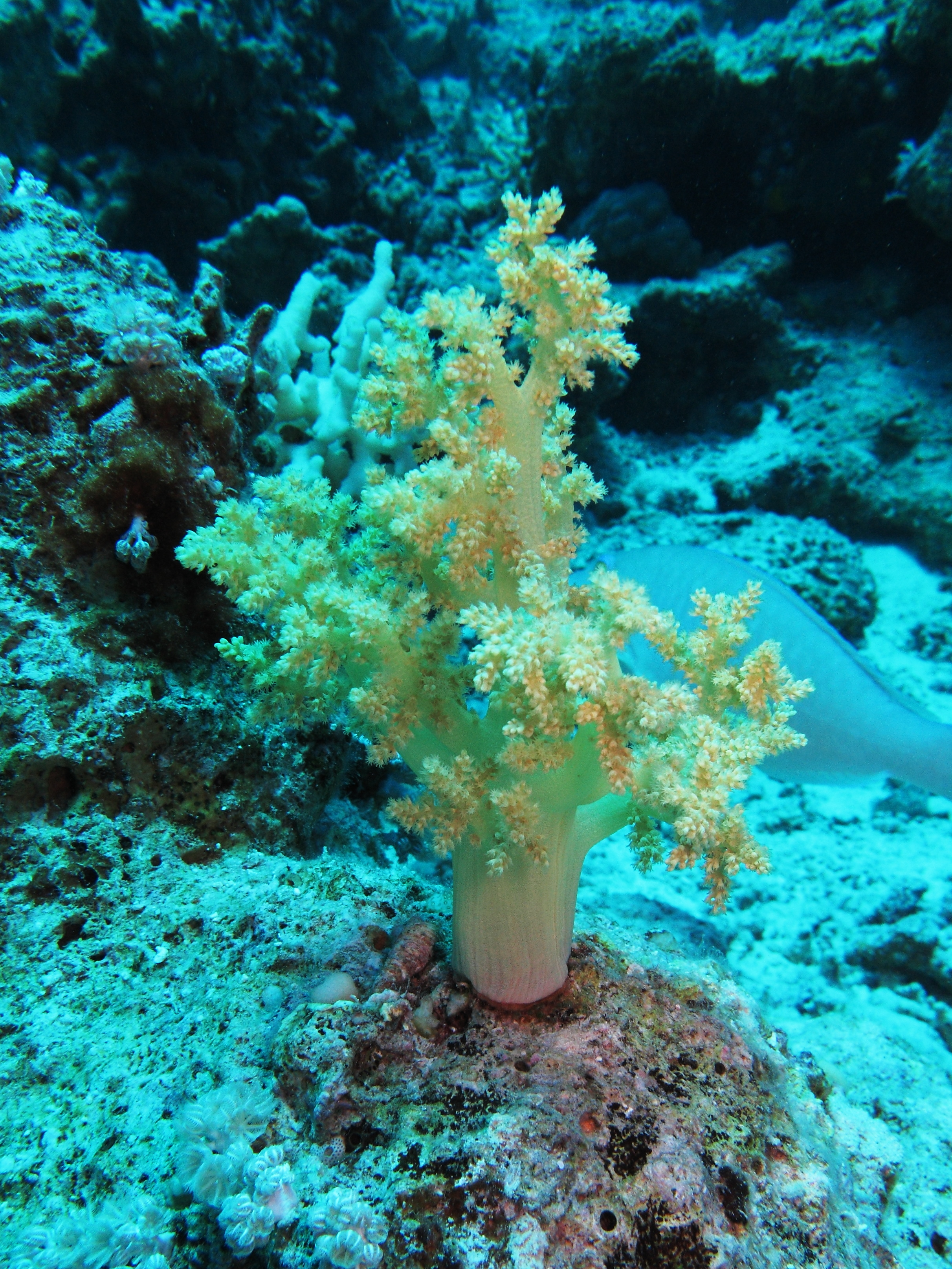 Soft coral Litophyton arboreum at Umm Khararim (Red Sea, Egypt)